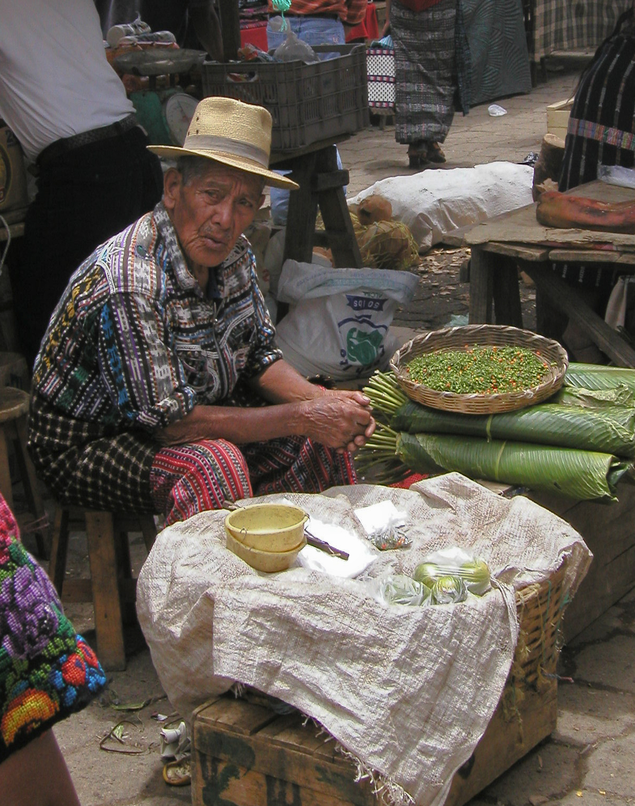 Sololá, Guatemala